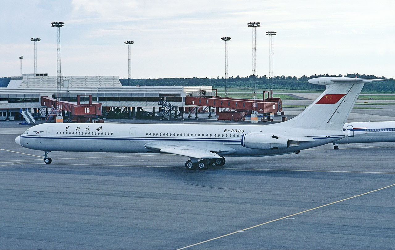 CAAC Ilyushin Il-62